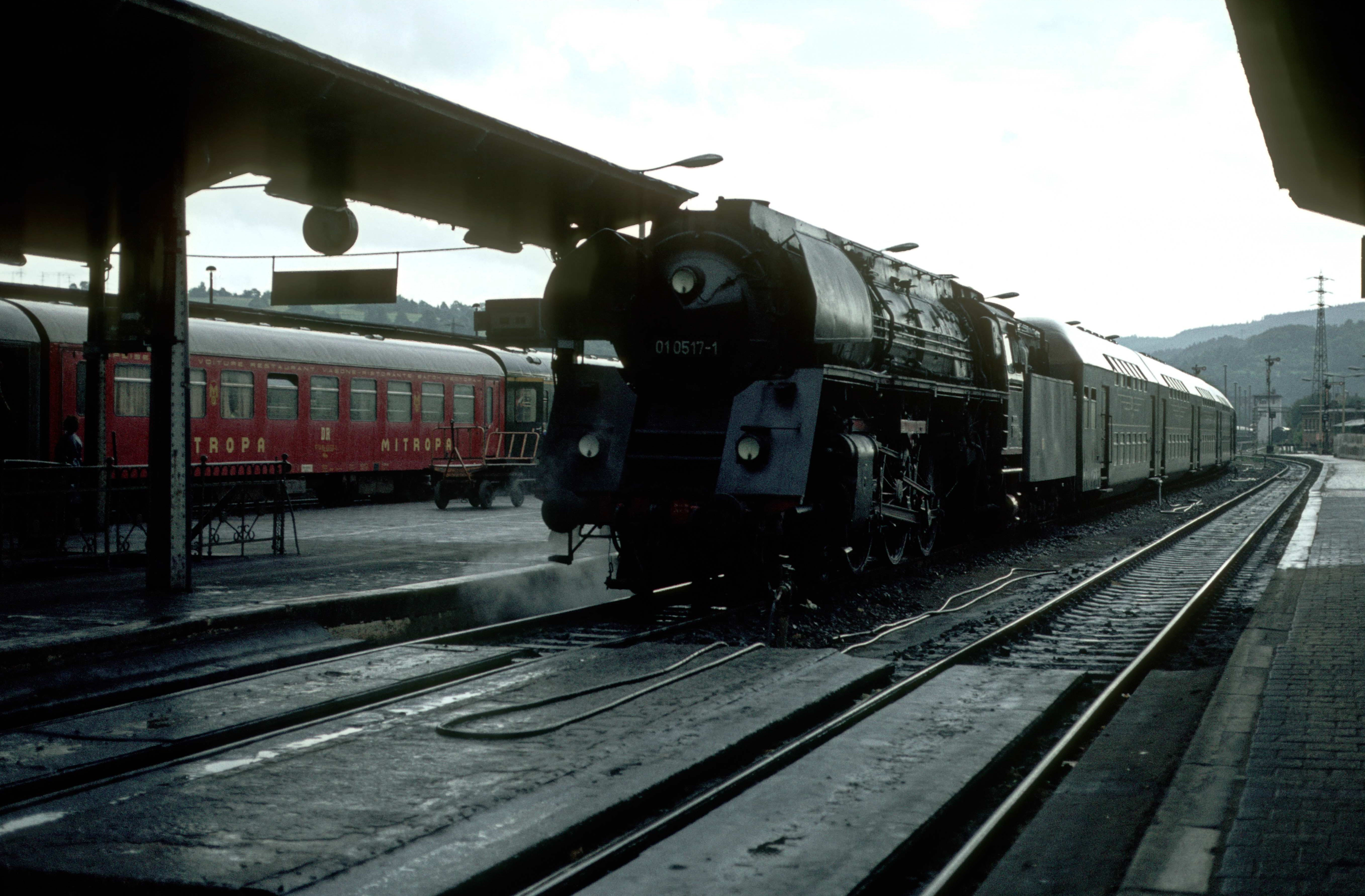 Saalfeld/Saale railway station in East Germany.